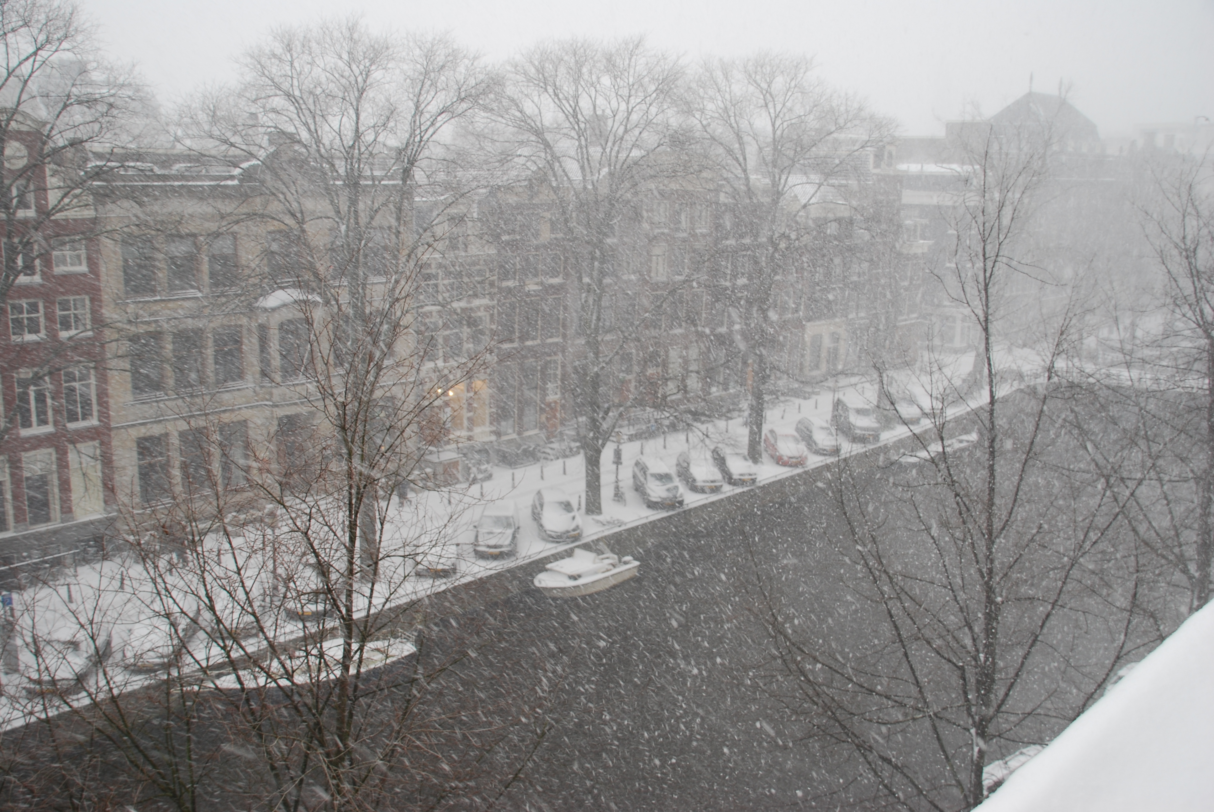 Amsterdam, Herengracht, Winter 2010